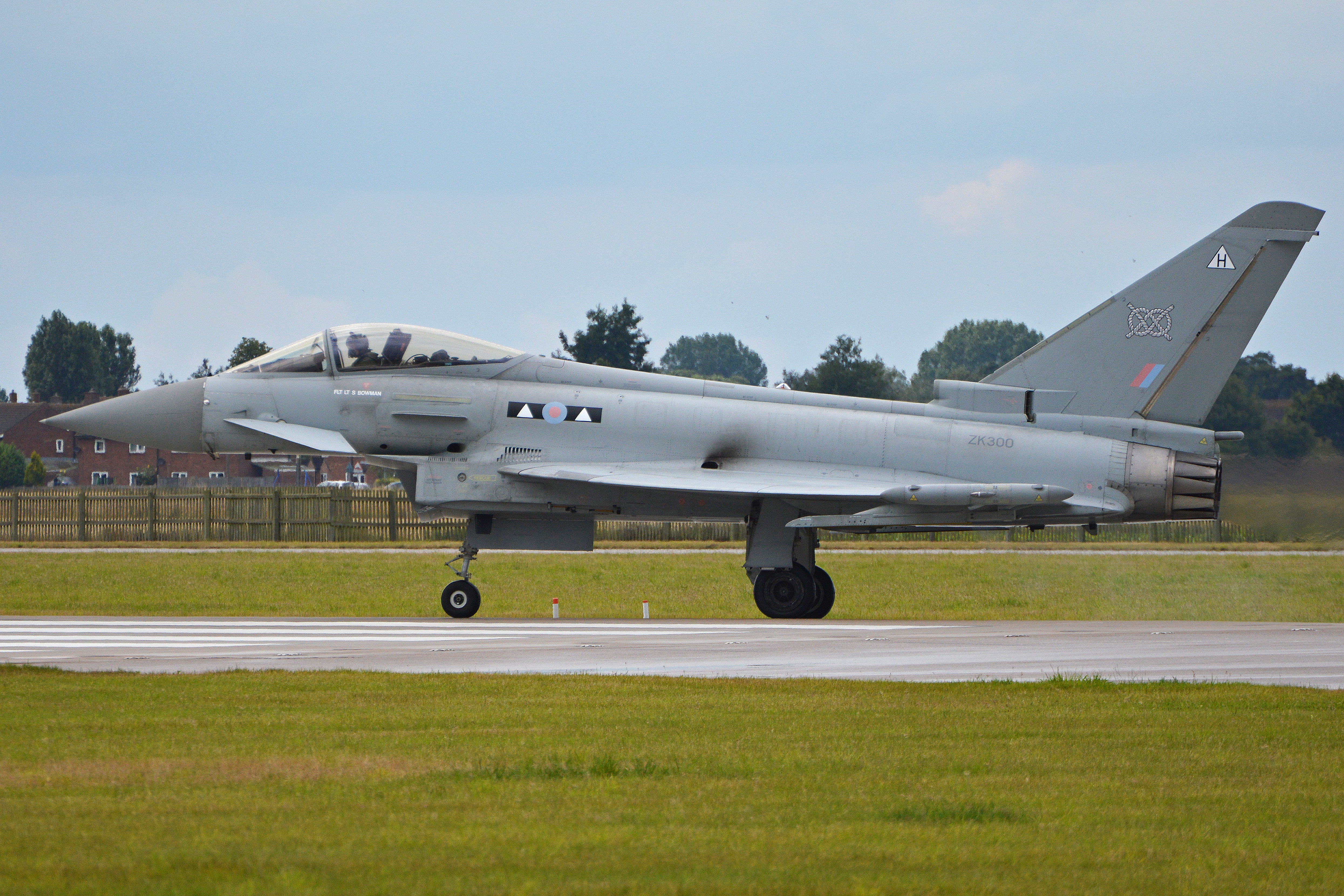 c/n 200, l/n BS052. Operated by 2sqn, based at RAF Lossiemouth in Scotland, but seen lining-up to depart from RAF Coningsby, Lincolnshire, UK. 29-7-2015